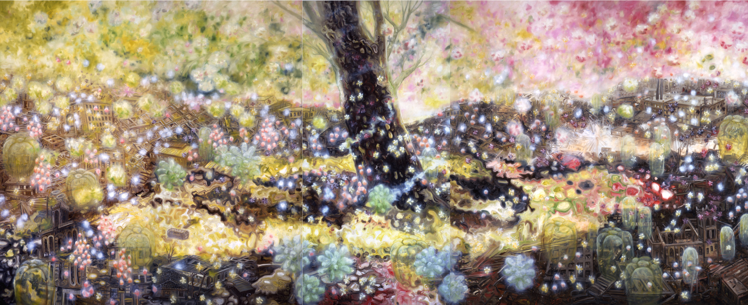 Oil on canvas, 227 x 555 cm / 90 x 220 inches, Hiroshima City Museum of Contemporary Art / private collection, Tokyo. Image courtesy: ©Oscar Oiwa Studio, NY.